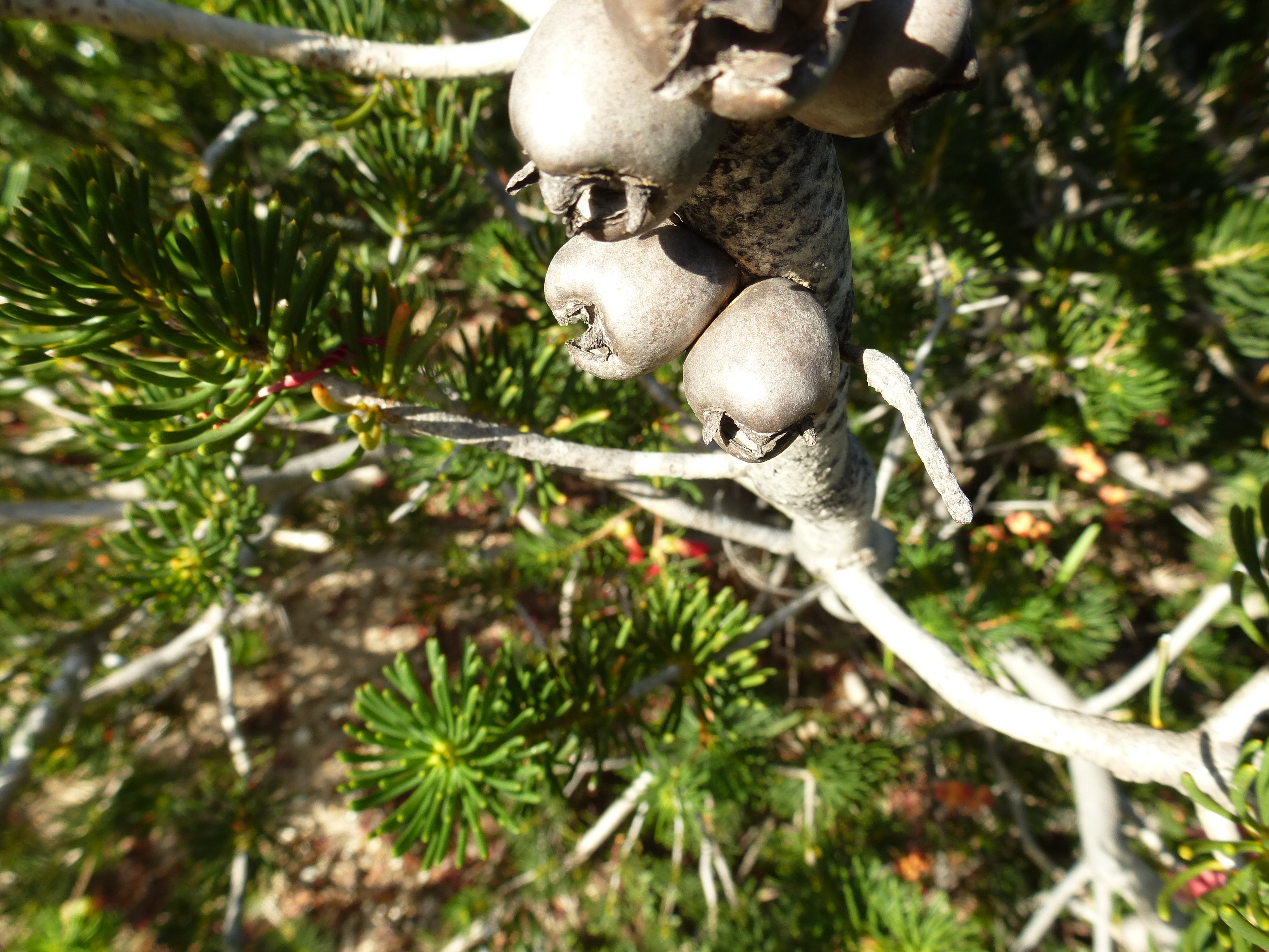 Calothamnus validus growing near East Mount Barren.